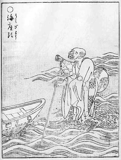 Umizatō (海座頭) from the Gazu Hyakki Yakō